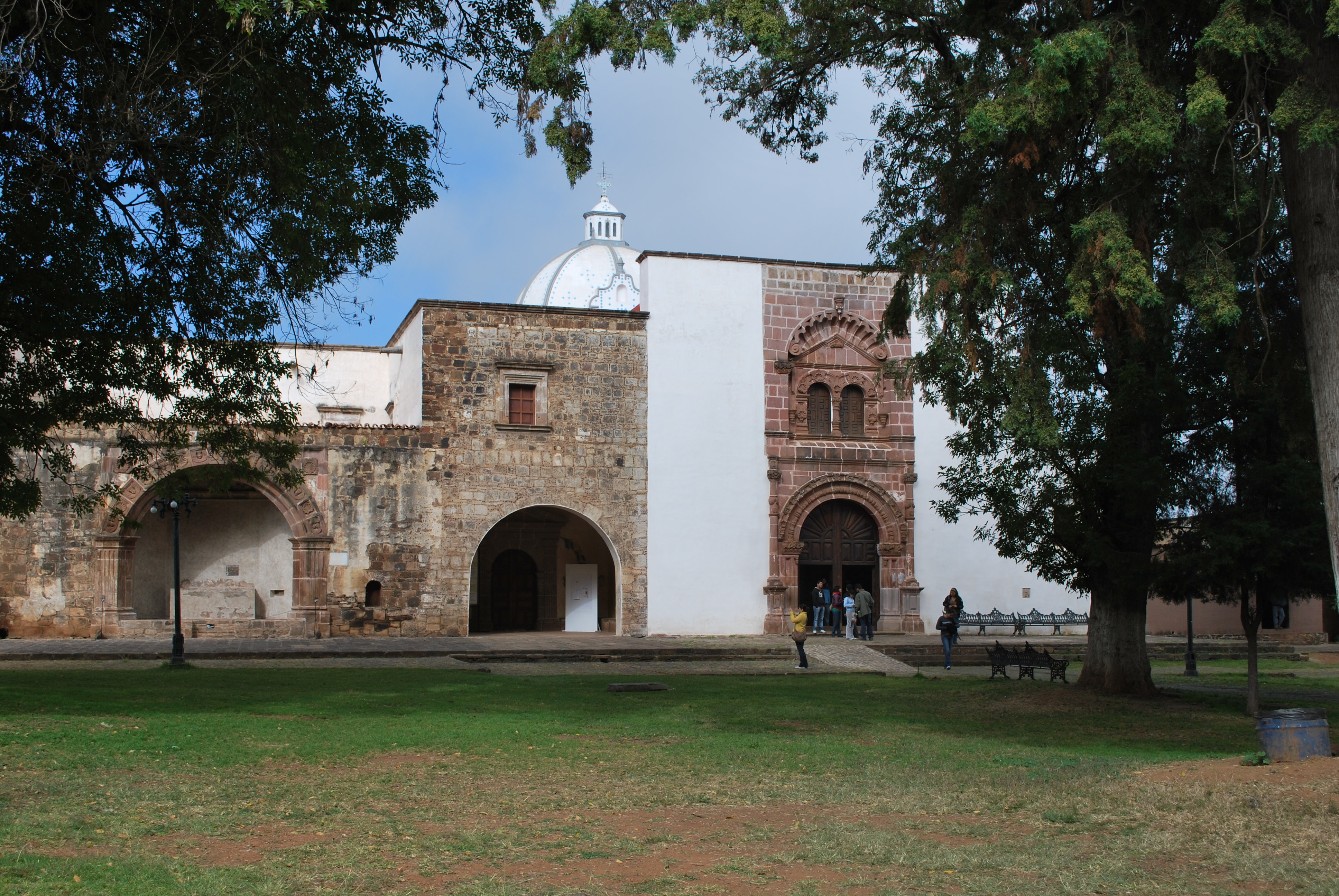 Facade of the Church of San Francisco of the Church and monastery complex of San Francisco in Tzintzuntzan, Michoacan